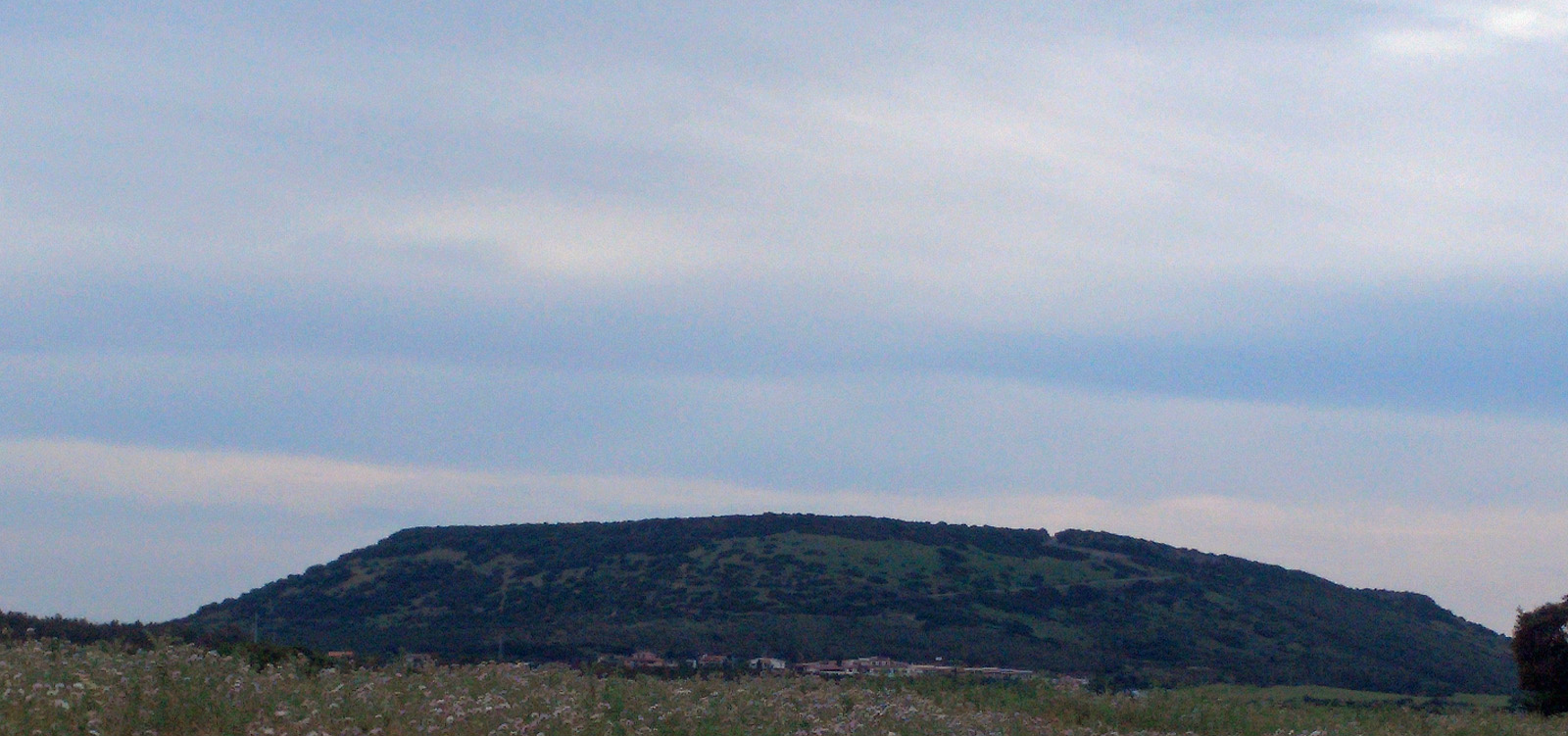 View of Monte Sirai, Carbonia, Sardinia, Italy